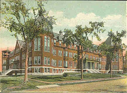 This is a 1908 postcard with (postmark from that year) of St. Mary's Hospital in Lewiston, Maine with no creator listed. I copied the postcard image and placed it on wikipedia. The image's copyright has expired because it was published 100 years ago.